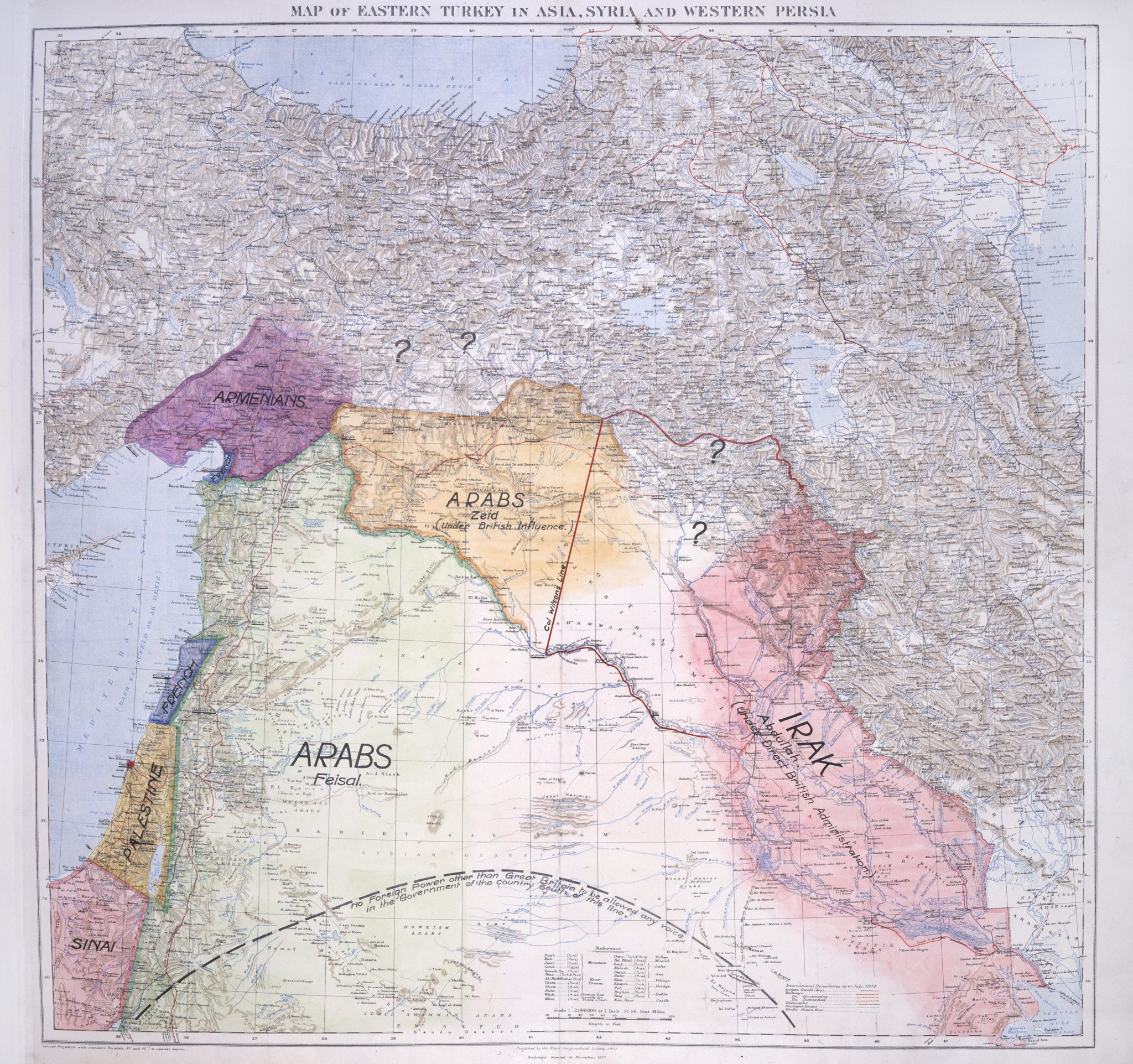 Lawrence of Arabia's map, presented to the Eastern Committee of the War Cabinet in November 1918. From the British National Archives